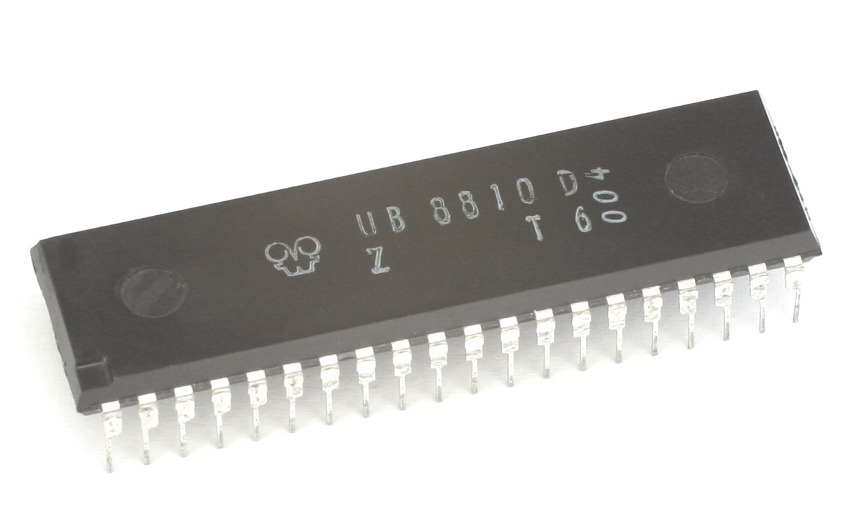 Single-chip microcontroller UB8810D from VEB Mikroelektronik "Karl Marx" Erfurt (MME), ROM pattern 004, Zilog Z8 architecture, manufactured 1985